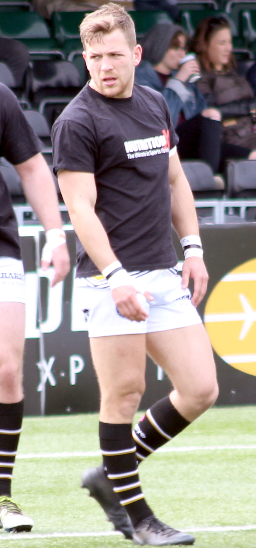 Chris Atkin